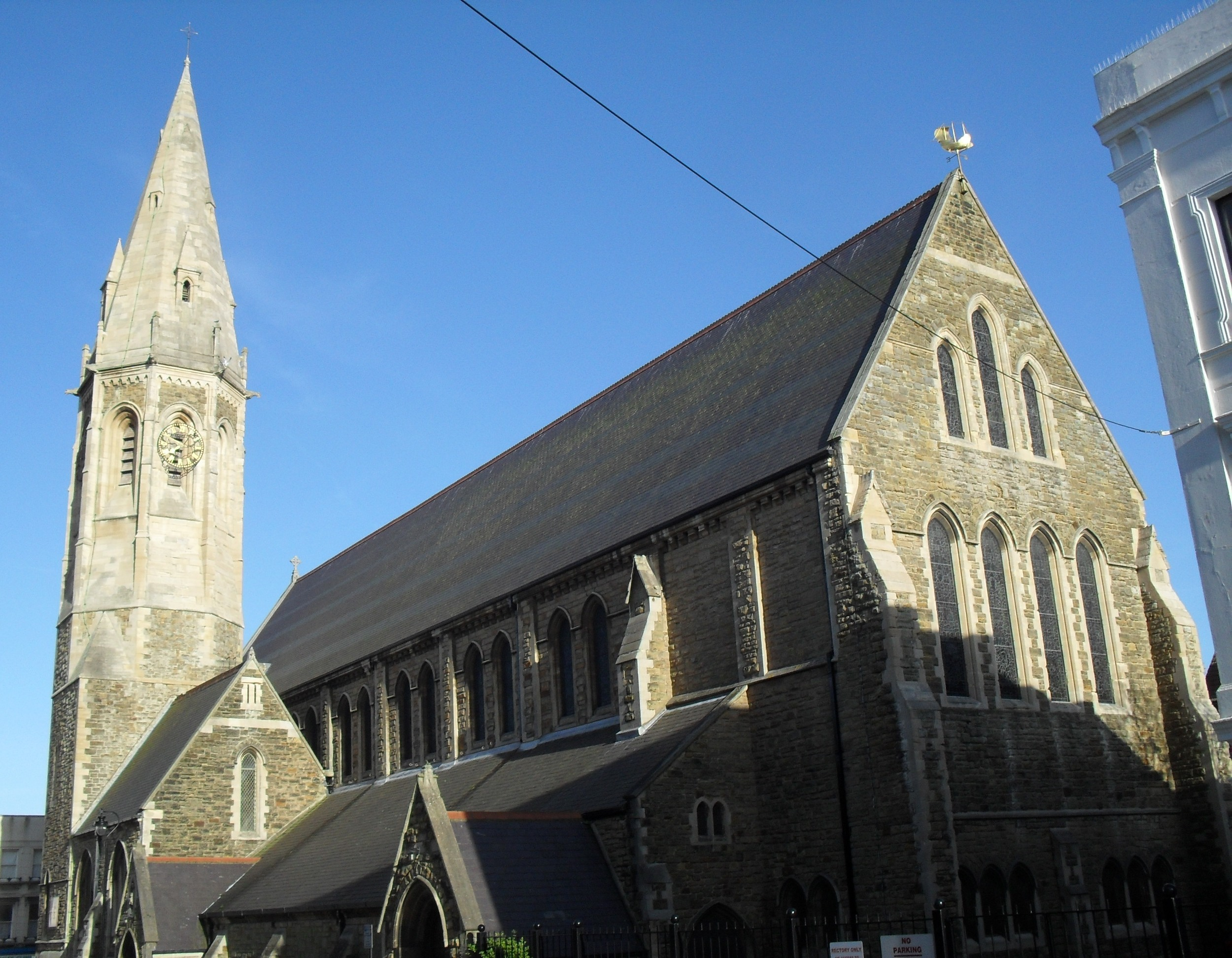 Christ Church, London Road, St Leonards-on-Sea, Hastings, East Sussex, England. Built between 1878 and 1881 in the Early English Gothic style by Sir Arthur Blomfield. Listed at Grade II* by English Heritage (IoE Code 293985) (Upgraded from lower and superseded Grade C)